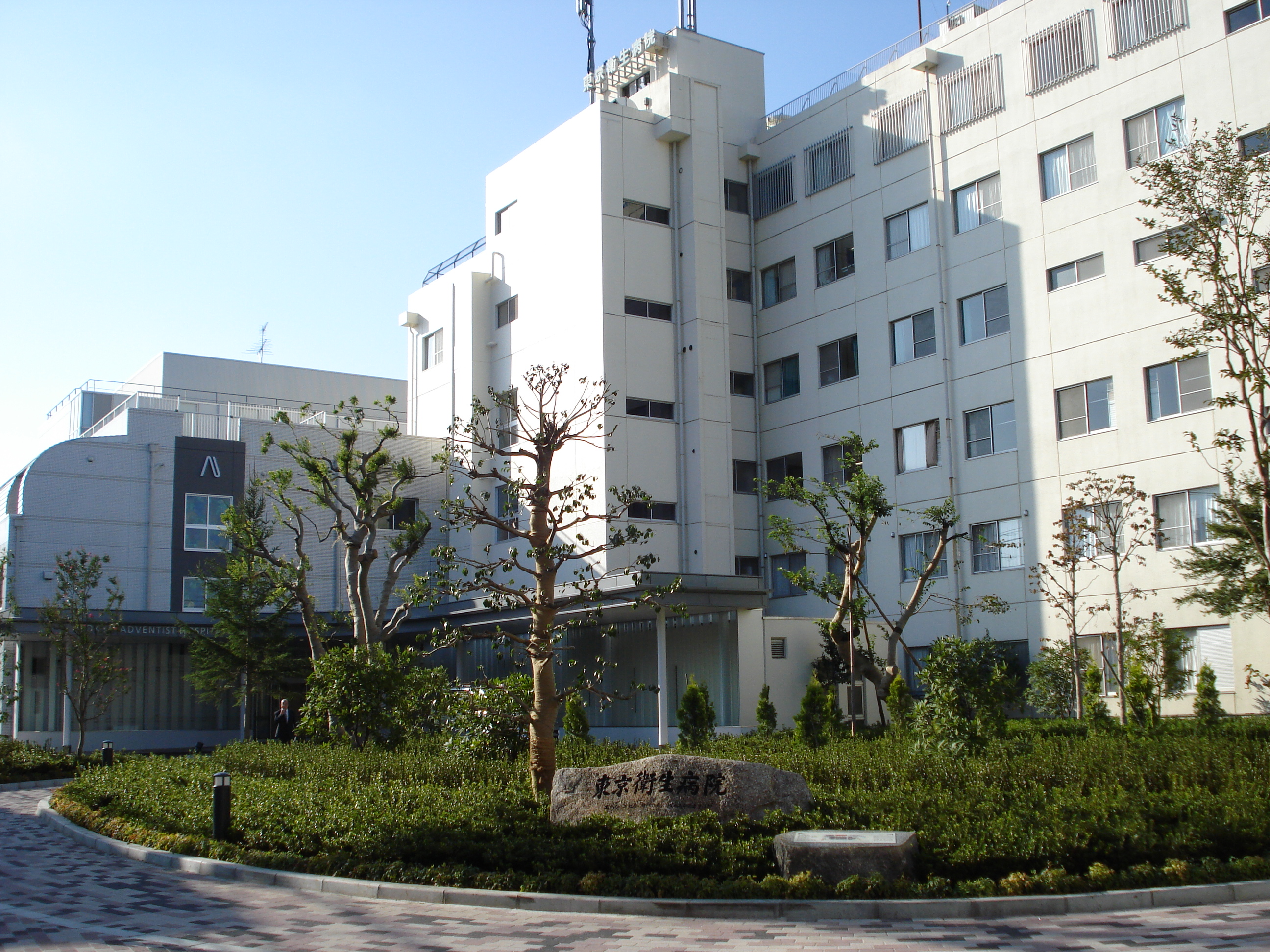 Tokyo Adventist Hospital (Tōkyō Eisei Byōin) in Amanuma, Suginami, Tokyo, Japan.